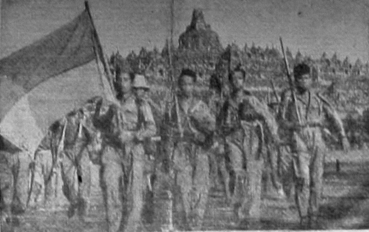 Indonesian soldiers in front of Borobudur temple